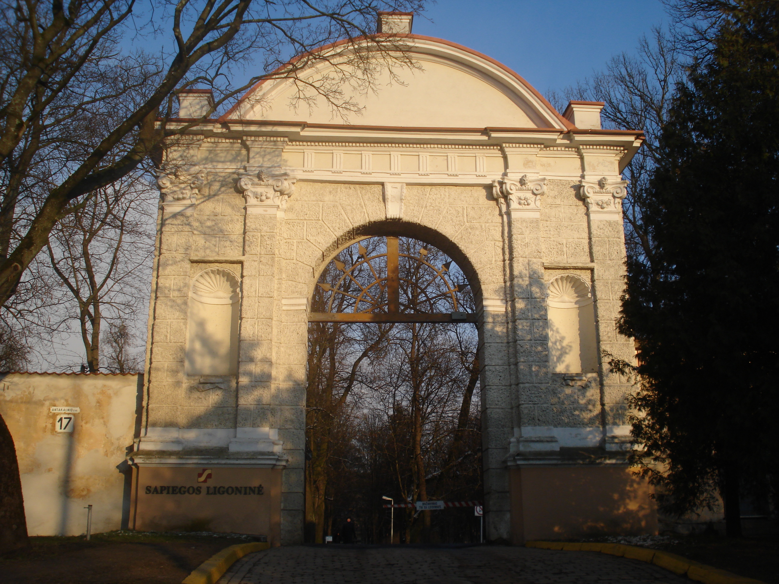 The Gate of the Sapieha Palace in Vilnius, Lithuania